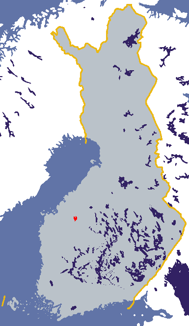 Location of lake Lappajärvi in Finland